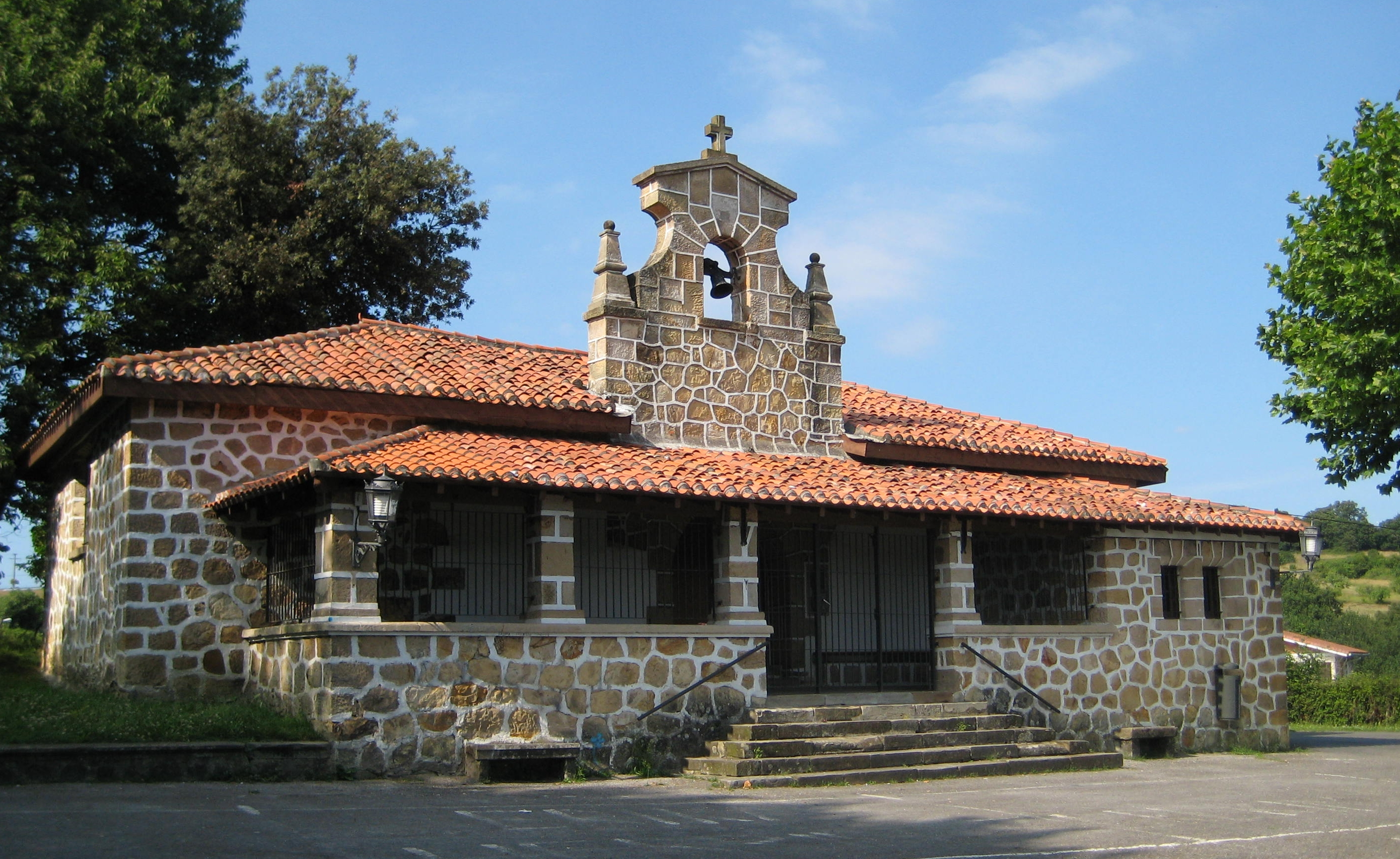 (Photograph taken 2011-06-14). Façade of Saint Christopher's Hermitage in Erandio, Biscay, Basque Country, Spain.